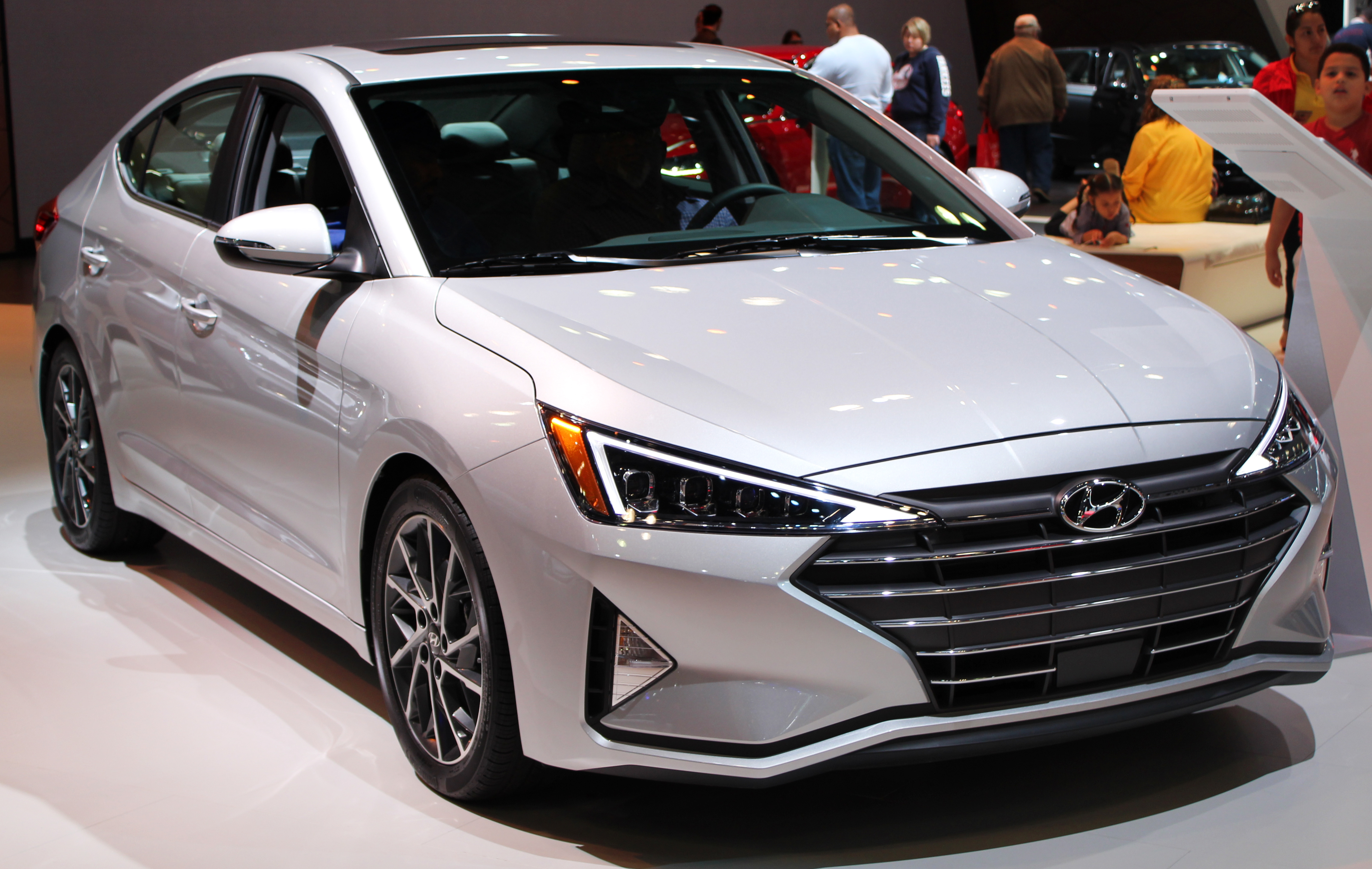 A 2019 Hyundai Elantra Limited (AD facelift) photographed during the 2019 New York International Auto Show, in Hudson Yards, Manhattan, NYC